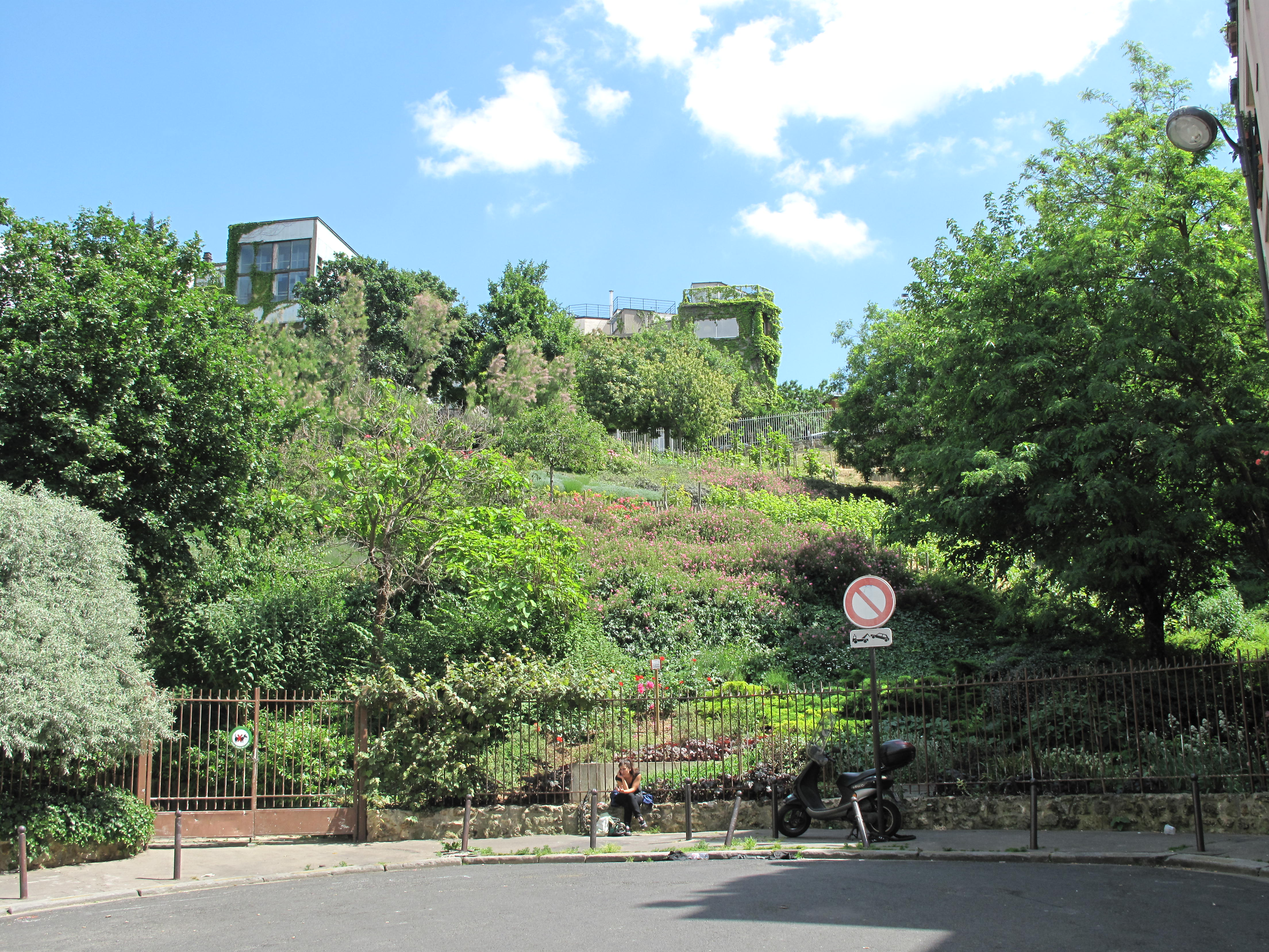 The small hill "butte Bergeyre". Sight of the Bergeyre garde, from the rue des Chaufourniers, Paris 19th arr.